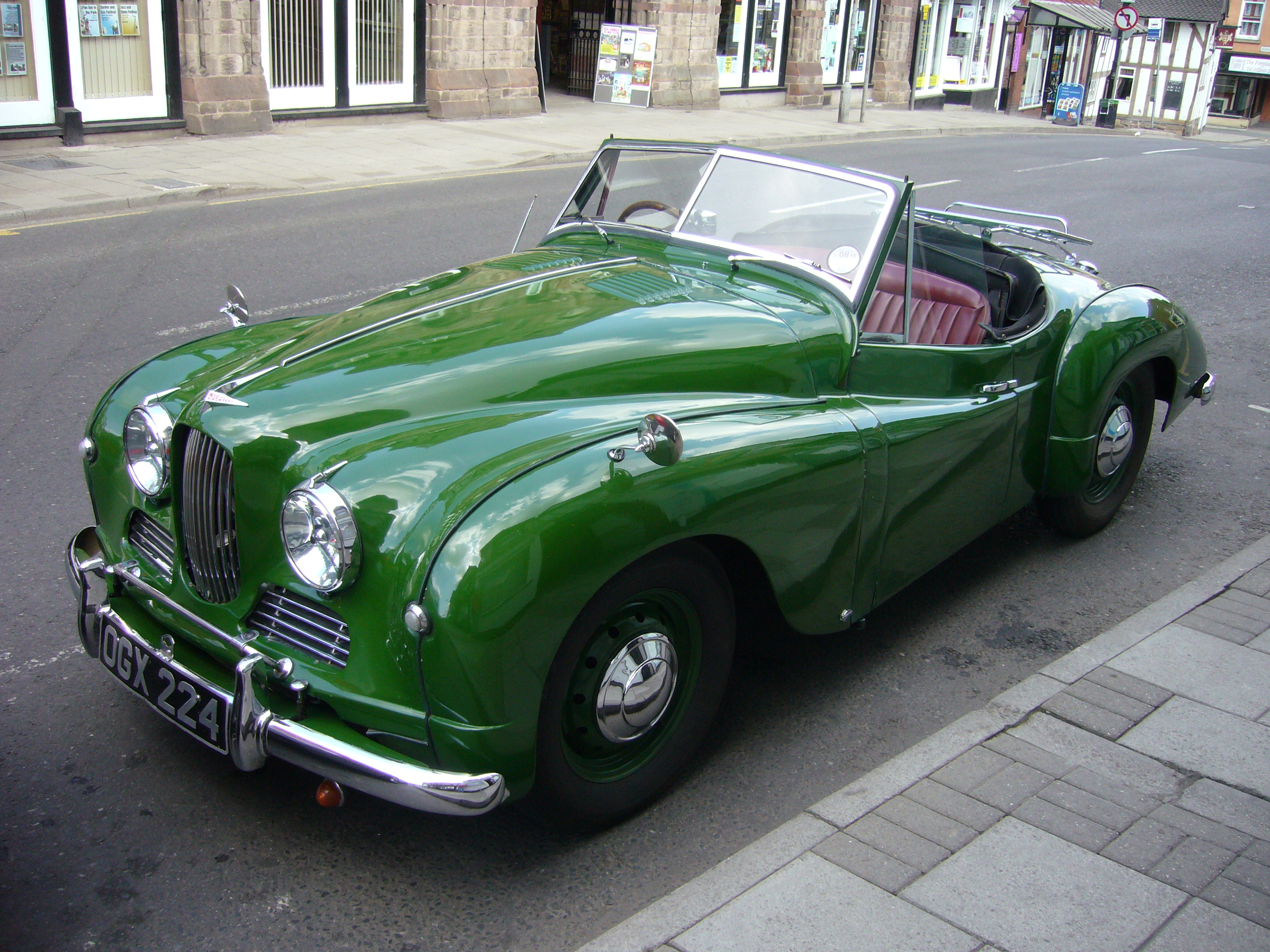 A Jowett Jupiter 'convertible' automobile from circa 1952. Photographed in Congleton, Cheshire. (DVLA) first registered 22 October 1953, 1486 cc